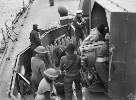 AWM caption : "1940-12-31. OFF BARDIA - AT THE SAFEST END OF THE 6" GUNS ON HMS LADYBIRD DURING THE BOMBARDMENT OF BARDIA. (NEGATIVE BY D. PARER)" Comment : this shows a BL 6 inch 50-calibre Mk XIII gun, originally mounted on HMS Agincourt (ex Rio de Janeiro).